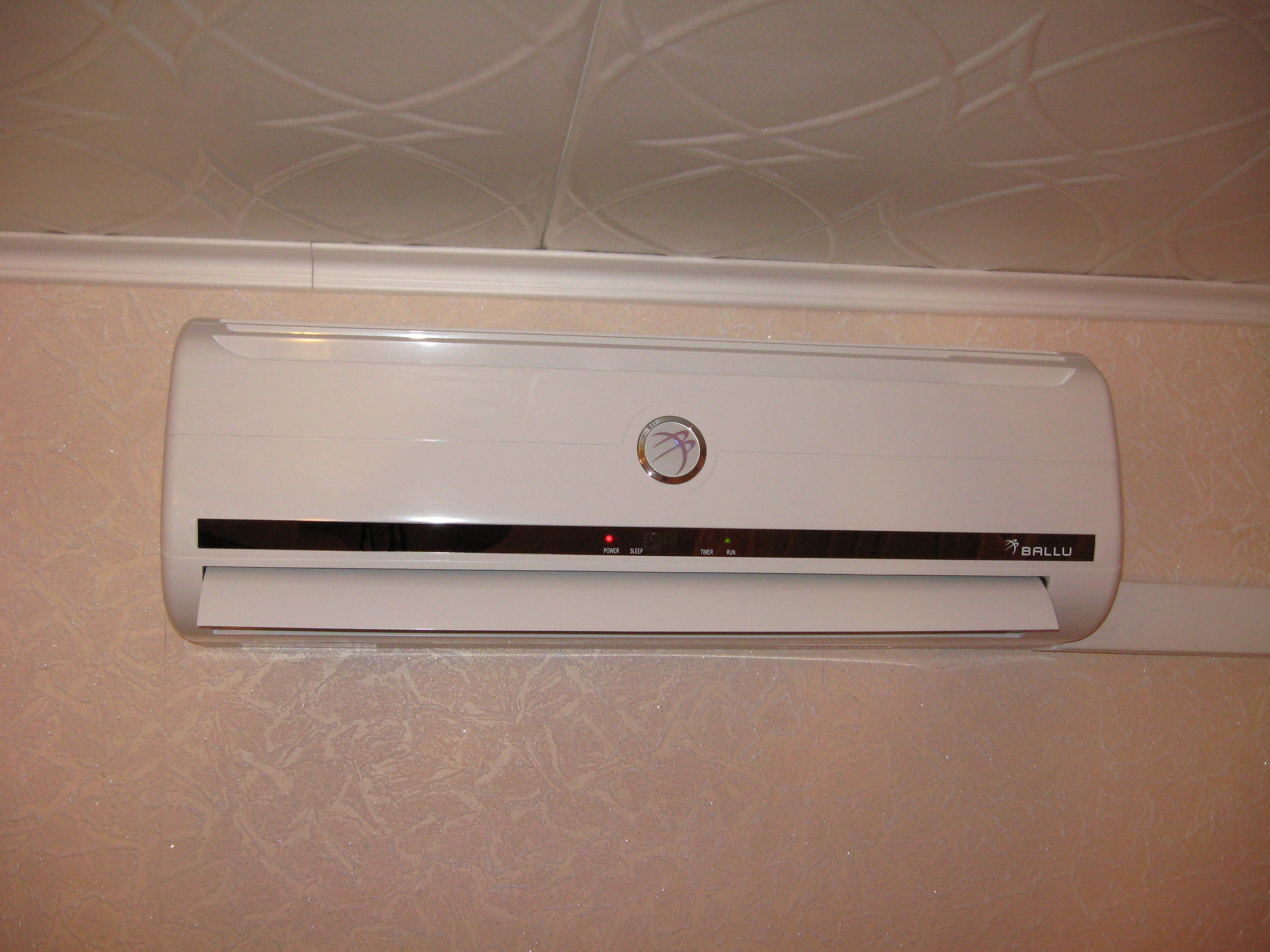 Ballu air conditioner